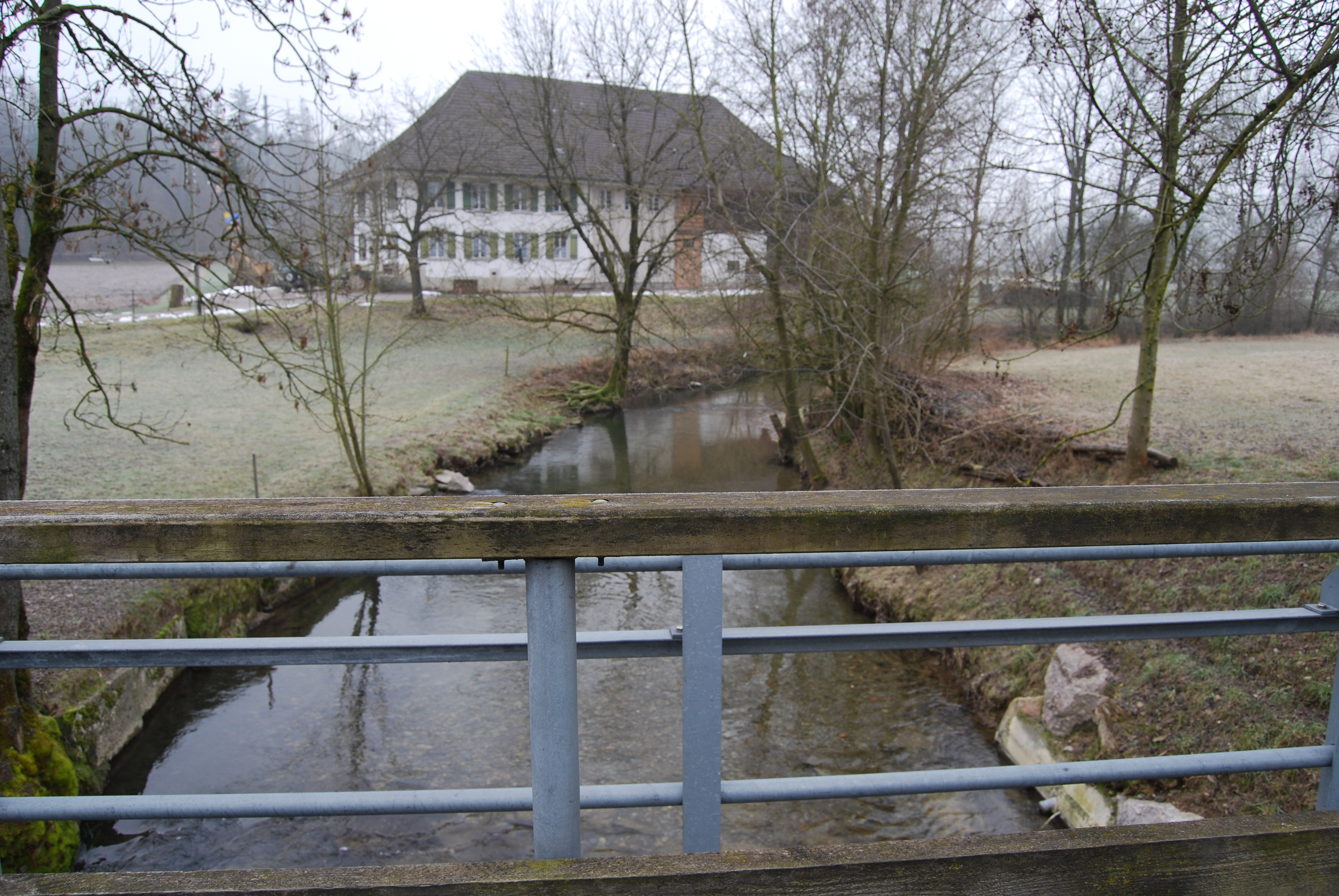 River Wyna at Suhr, canton of Aargau, SwitzerlandEsperanto: Rivero Wyna in Suhr, Kantono Argovio, Svislando